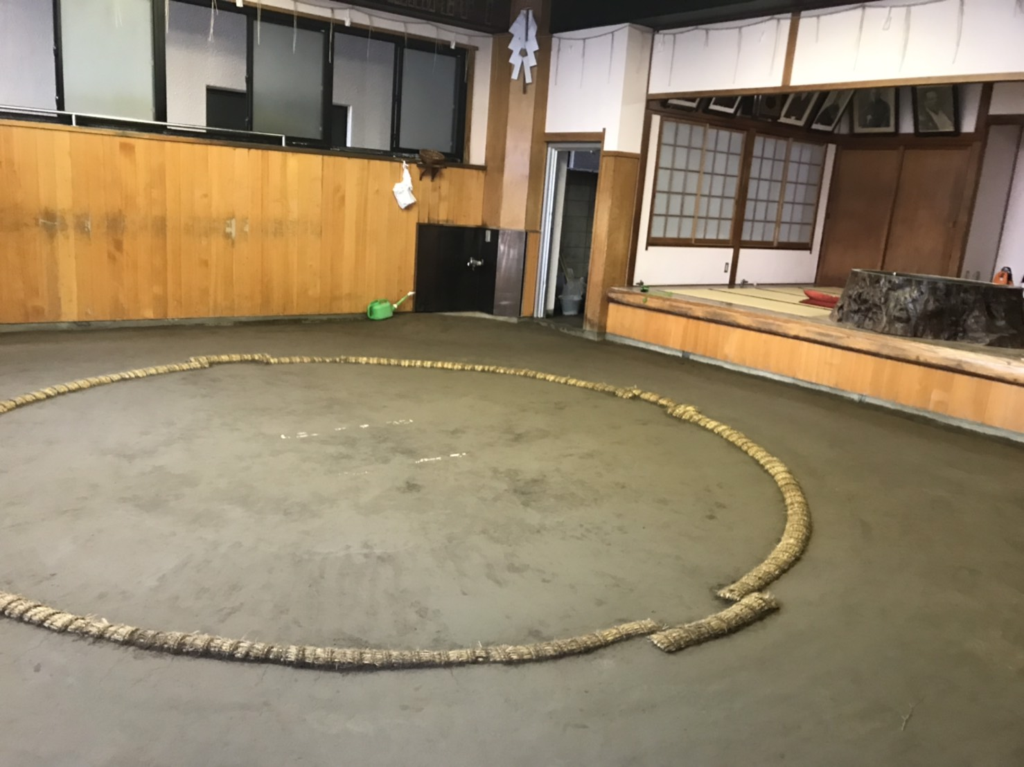 practice ring in Dewanoumi stable